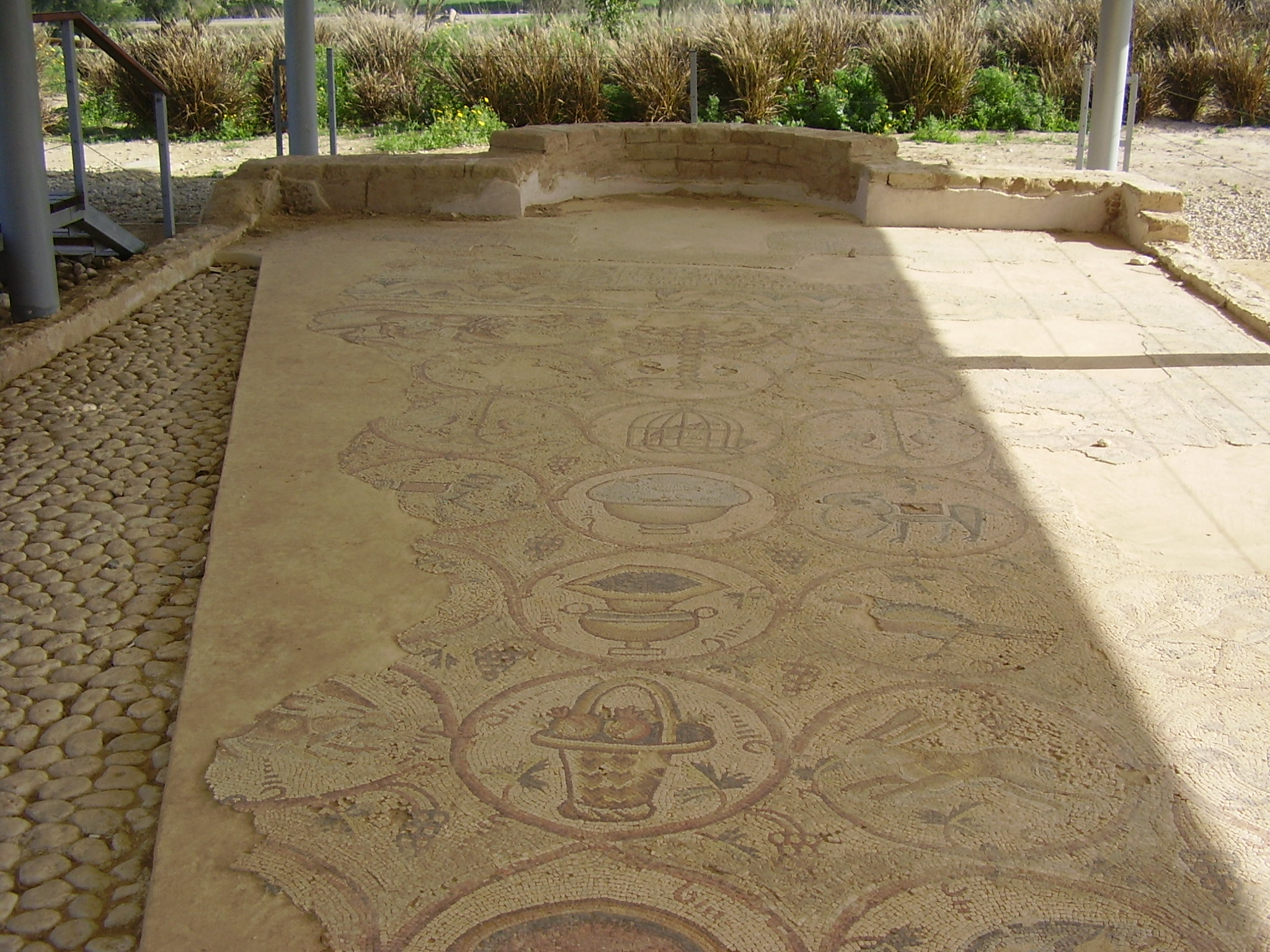 mosaic in the old synagogue in maon in the western negev.